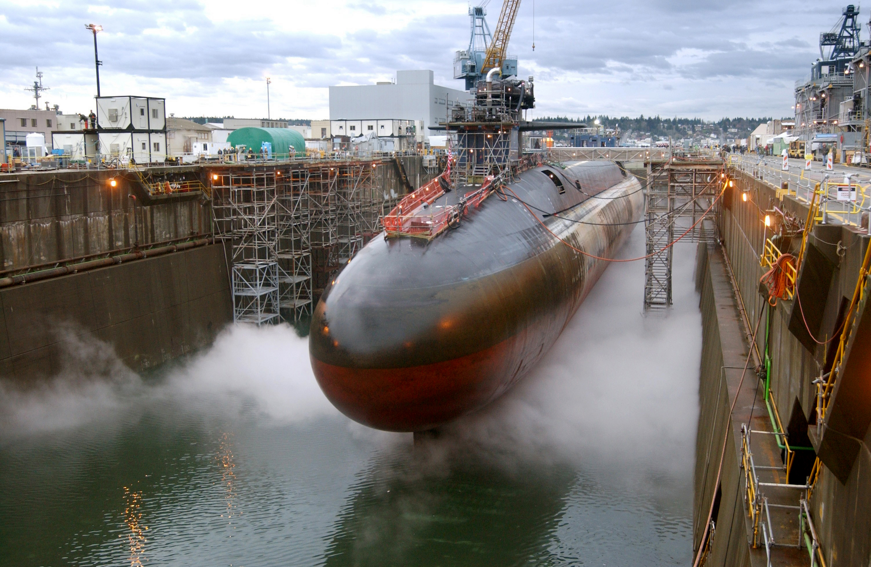 Puget Sound Naval Shipyard, Wash. (Aug. 14, 2003) -- USS Ohio (SSGN 726) is in dry dock undergoing a conversion from a Ballistic Missile Submarine (SSBN) to a Guided Missile Submarine (SSGN) designation. Ohio has been out of service since Oct. 29, 2002 for conversion to SSGN at Puget Sound Naval Shipyard. Four Ohio-class strategic missile submarines, USS Ohio (SSBN 726), USS Michigan (SSBN 727) USS Florida (SSBN 728), and USS Georgia (SSBN 729) have been selected for transformation into a new platform, designated SSGN. The SSGNs will have the capability to support and launch up to 154 Tomahawk missiles, a significant increase in capacity compared to other platforms. The 22 missile tubes also will provide the capability to carry other payloads, such as unmanned underwater vehicles (UUVs), unmanned aerial vehicles (UAVs) and Special Forces equipment. This new platform will also have the capability to carry and support more than 66 Navy SEALs (Sea, Air and Land) and insert them clandestinely into potential conflict areas. U.S. Navy file photo. (RELEASED)